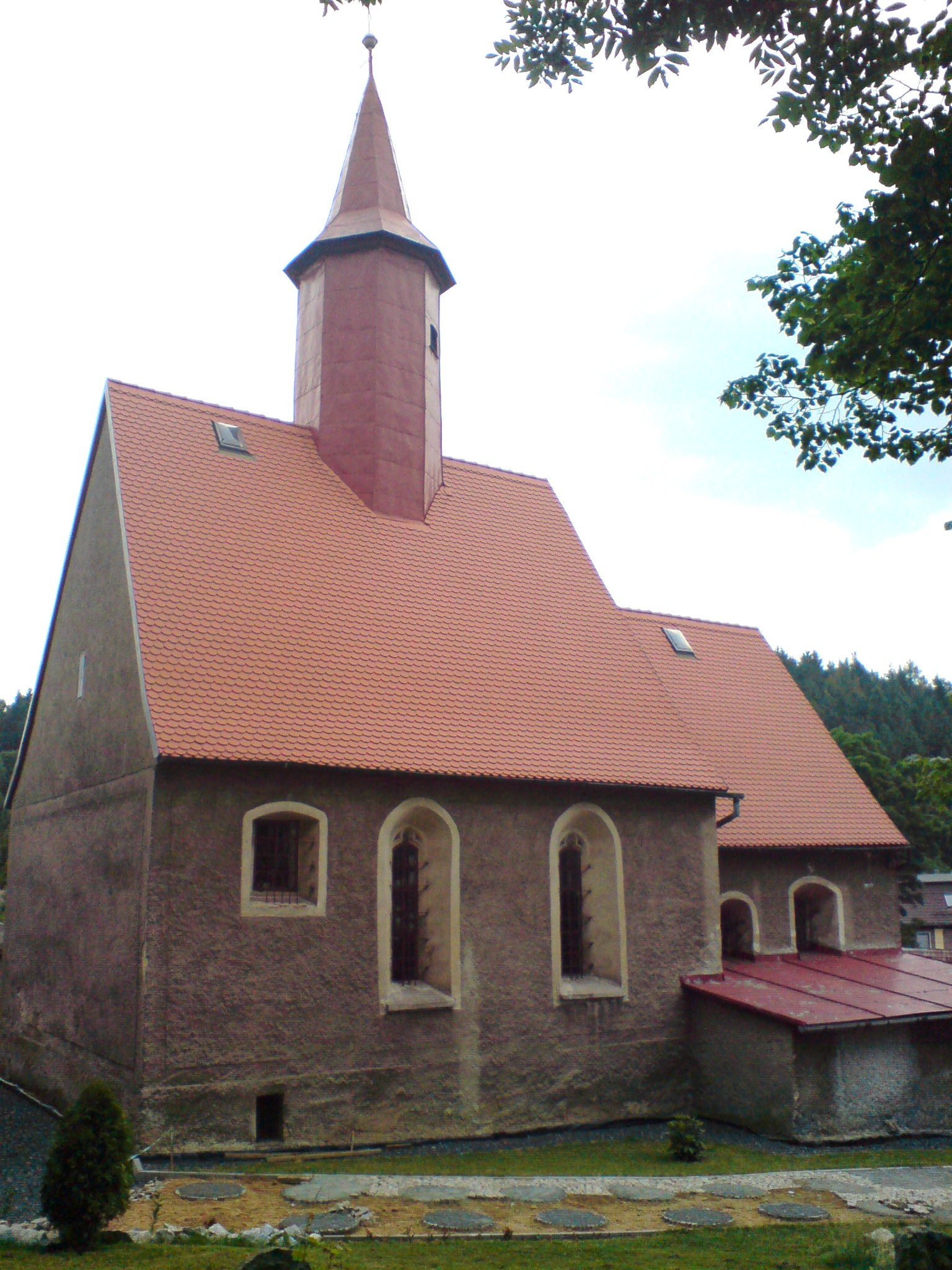 Corpus Christi church in Piechowice, Poland